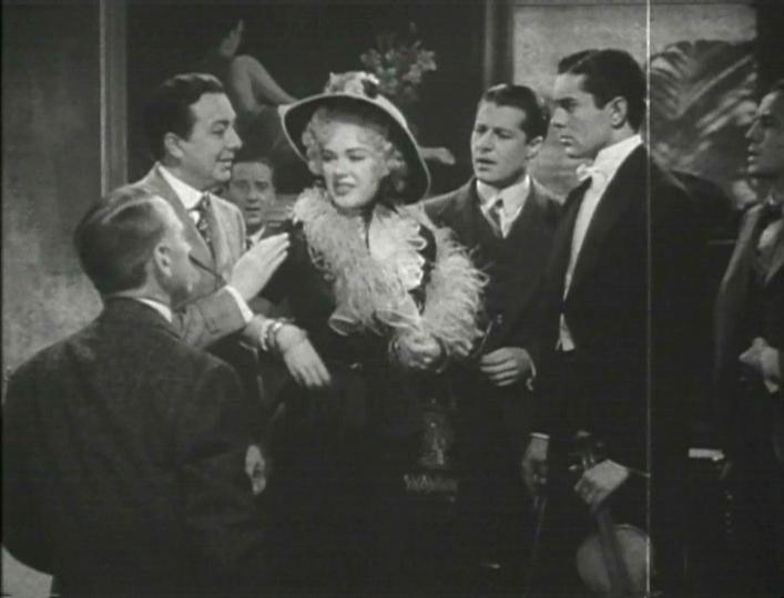 Screenshot of Jack Haley, Alice Faye, Don Ameche and Tyrone Power from the trailer for the film Alexander's Ragtime Band